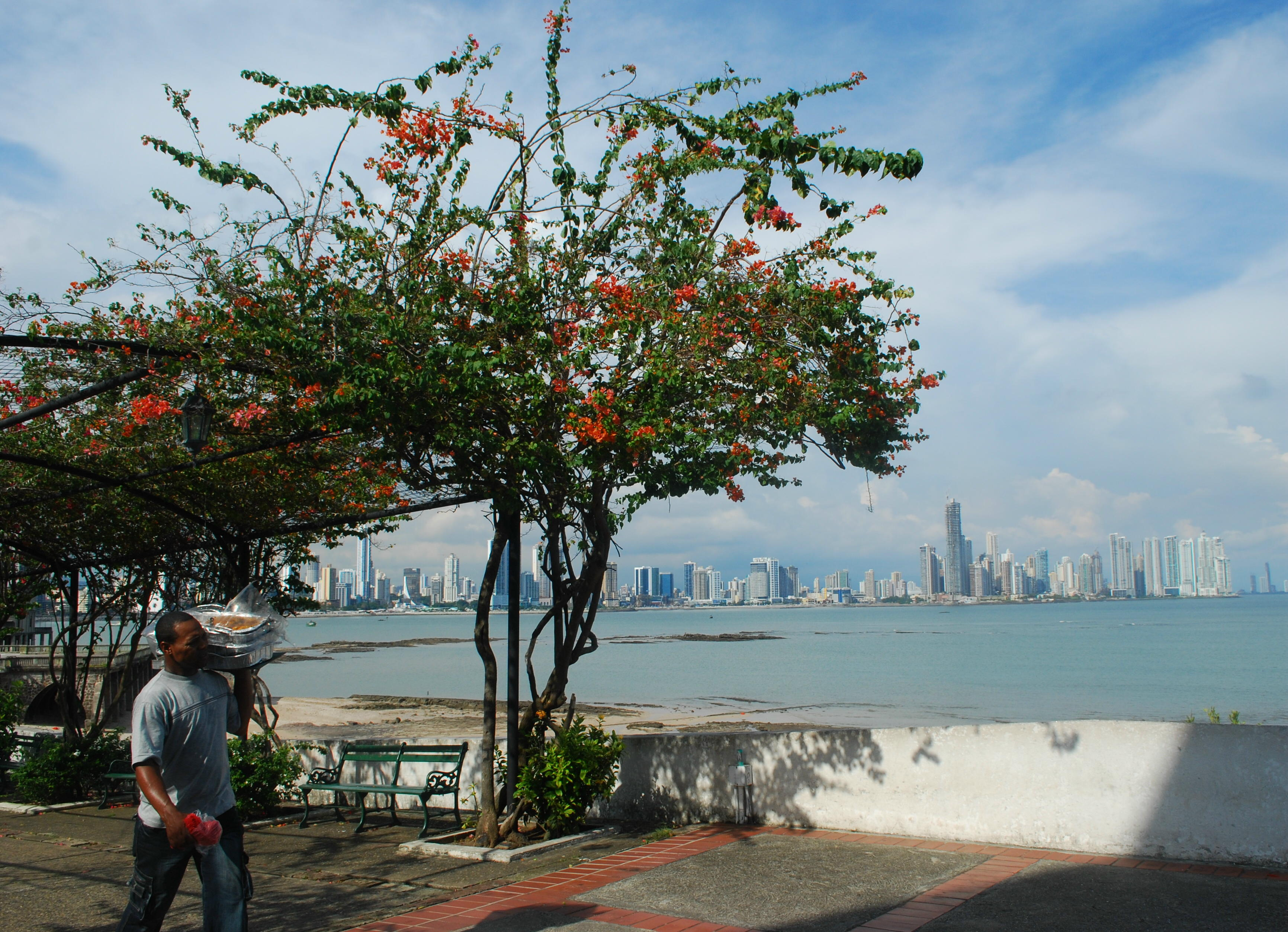 View from the Casco Viejo across the bay to modern Panama City